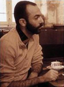 Picture of Guillaume Dustan, french writter